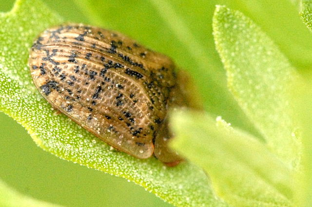 Cassida nebulosa from Commanster, Belgian High Ardennes .